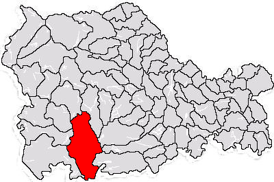 Locator map of TTarcău commune